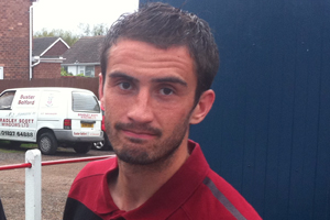 Photo of John Nutter taken by myself following the game between Tamworth and Lincoln City on 8 October 2011 at The Lamb Ground in Tamworth.